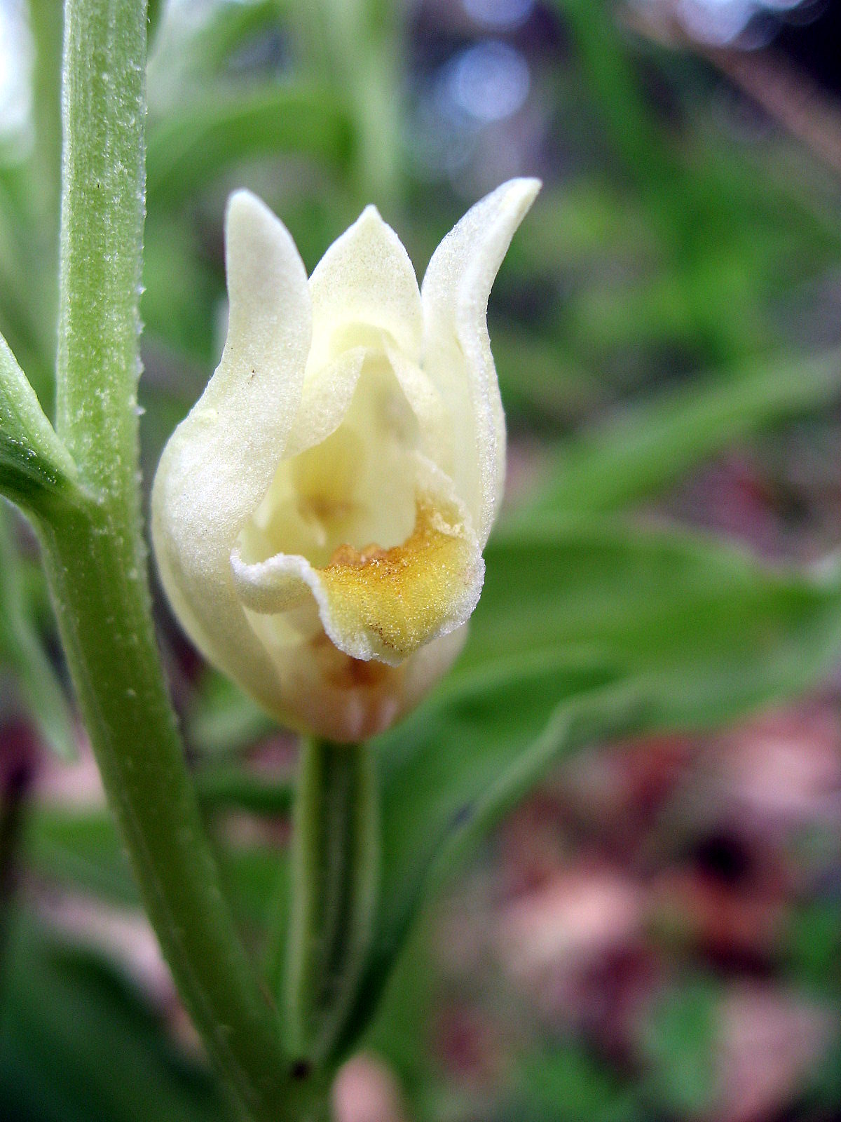 Cephalanthera longifolia